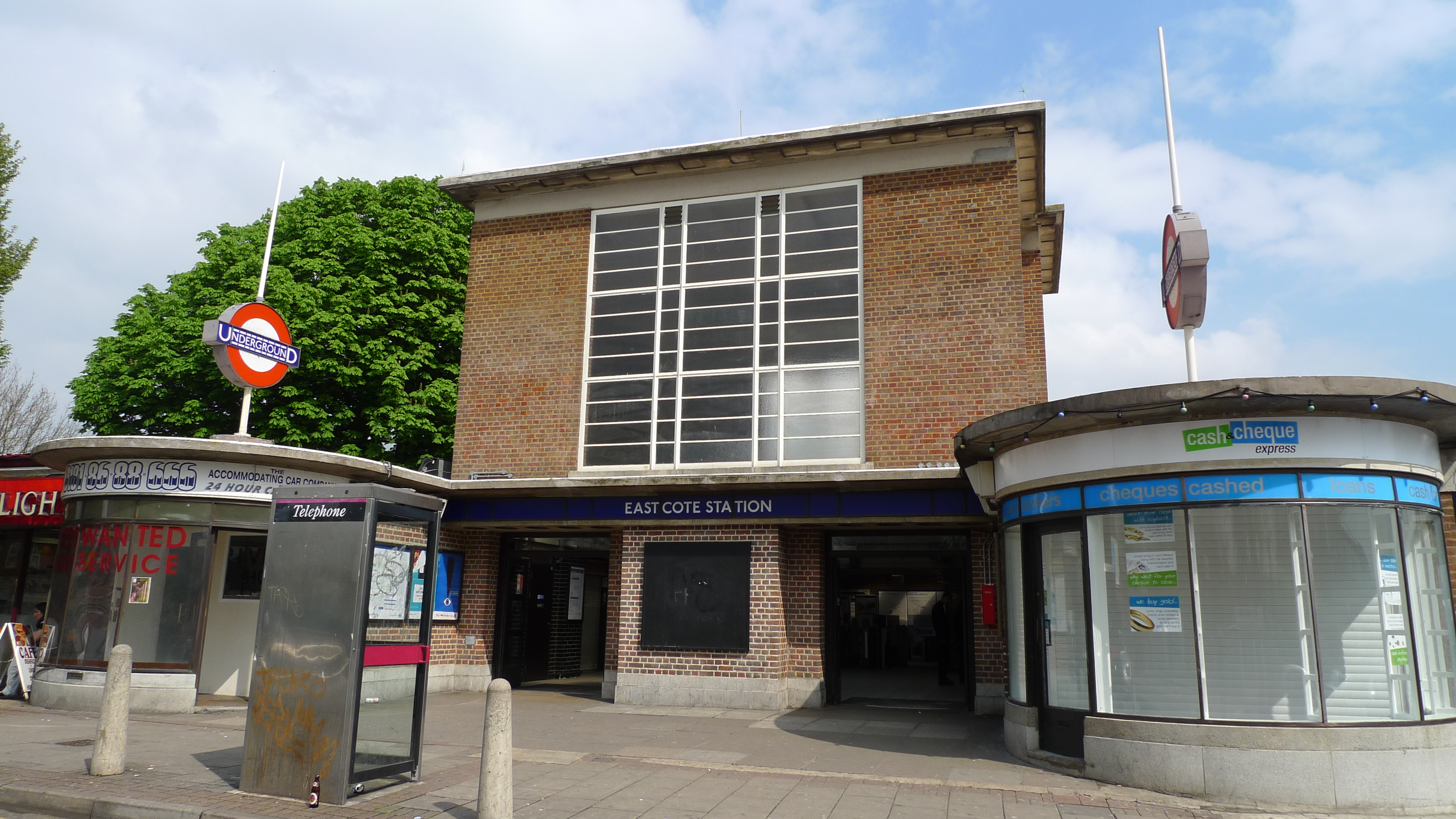 Another bulbous but attractive 30s building on this line. Line(s) and Previous/Next Stations: Ruislip Manor Rayners Lane Ruislip Manor Rayners Lane Links: Randomness Guide to London Wikipedia